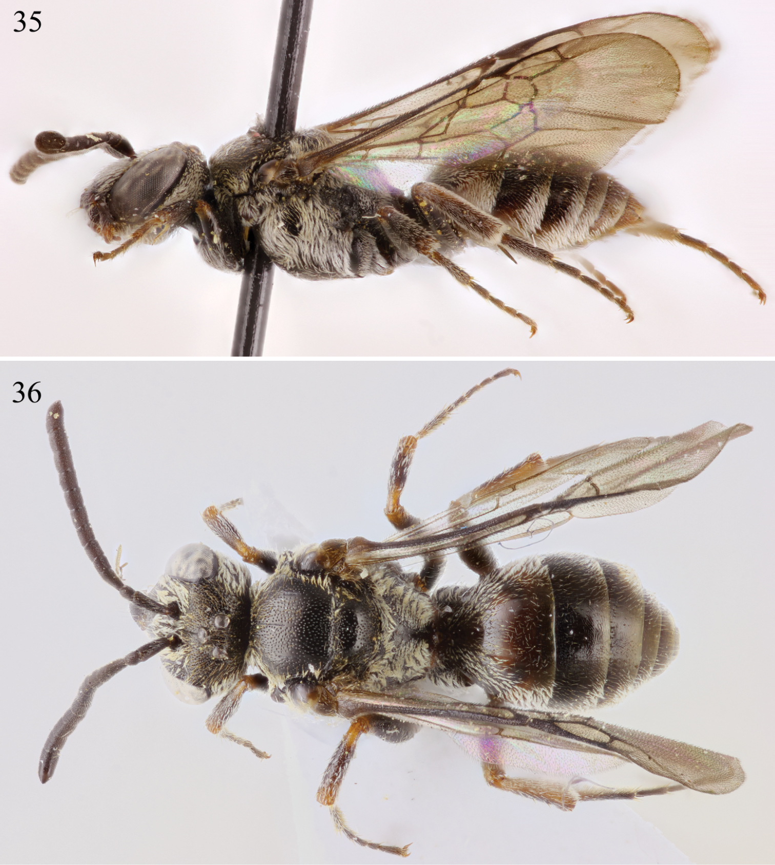 Male habitus of Chiasmognathus batelkai. 35 Lateral 36 Dorsal.